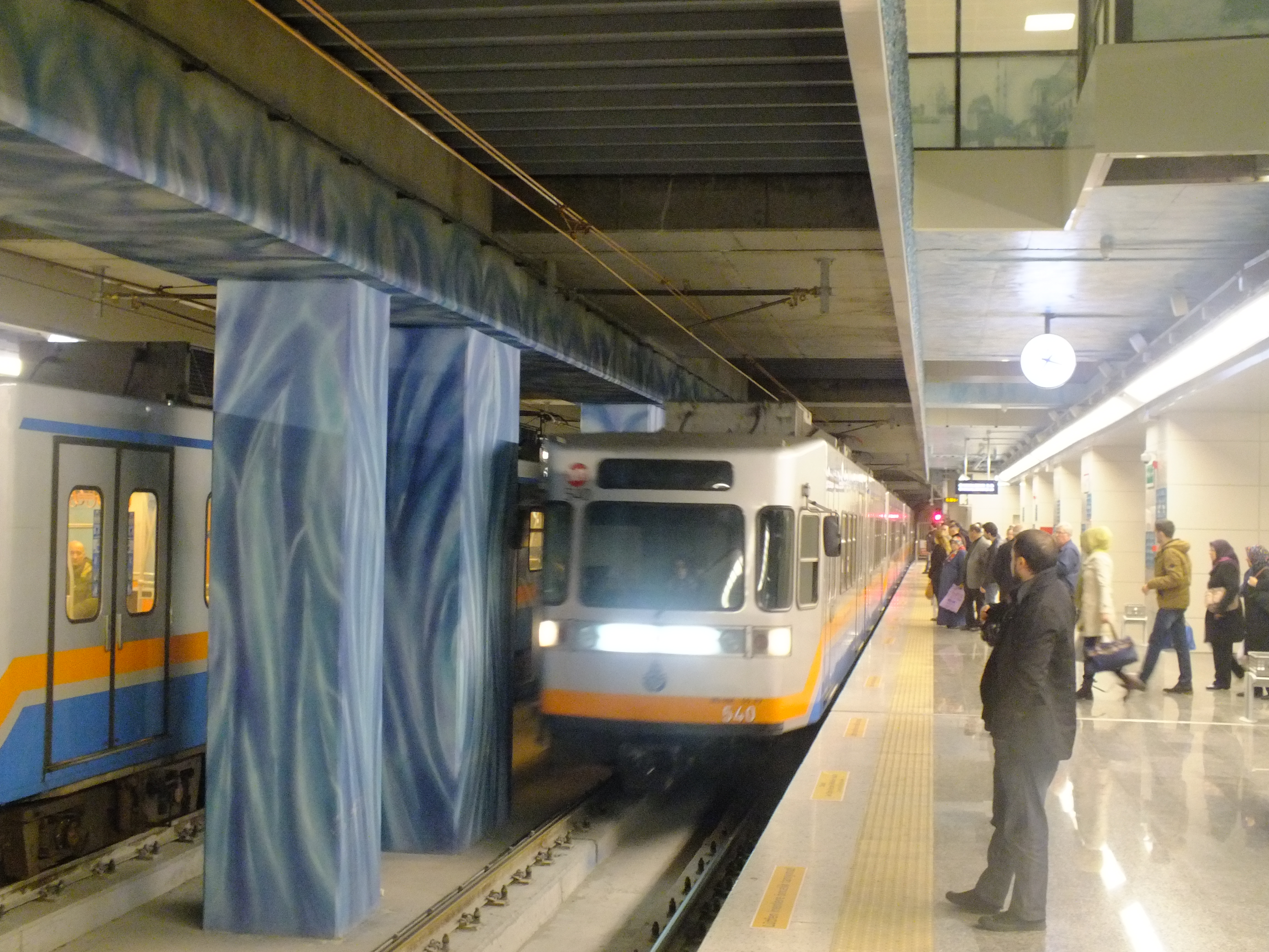 M1A train arriving at Yenikapi.